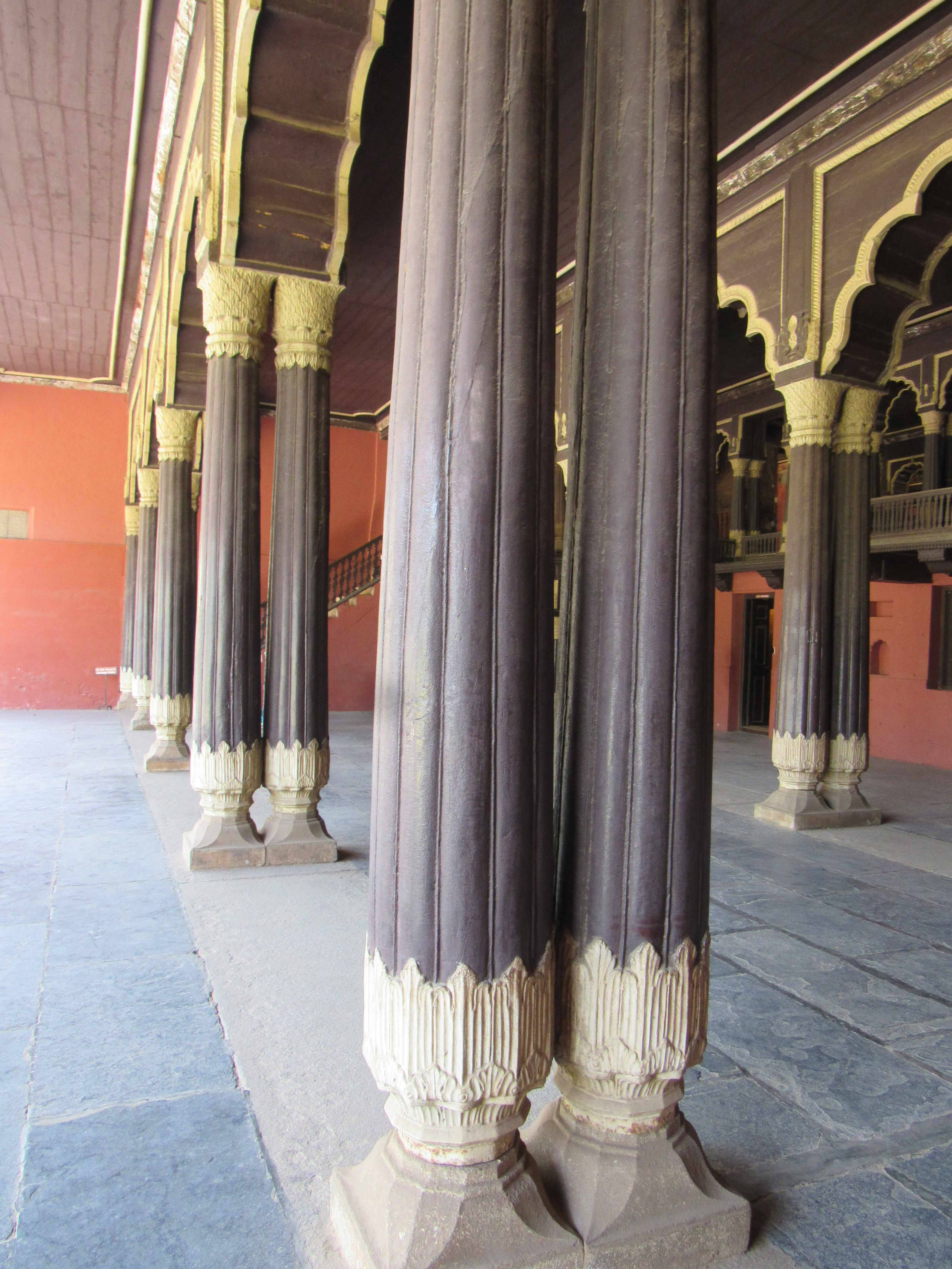 Pillars of Tipu Sultan's Summer Palace